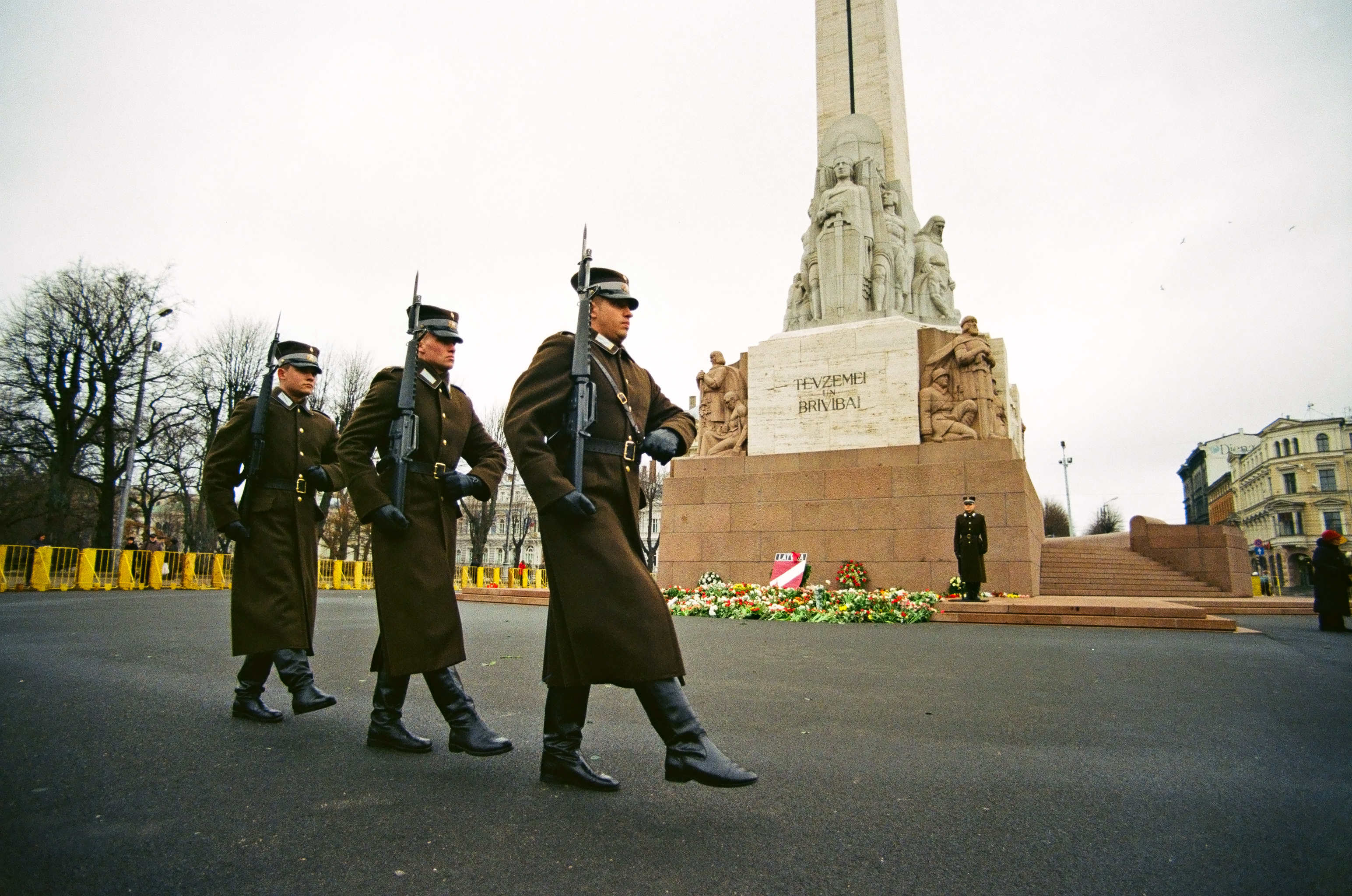 The Freedom monument in Riga.